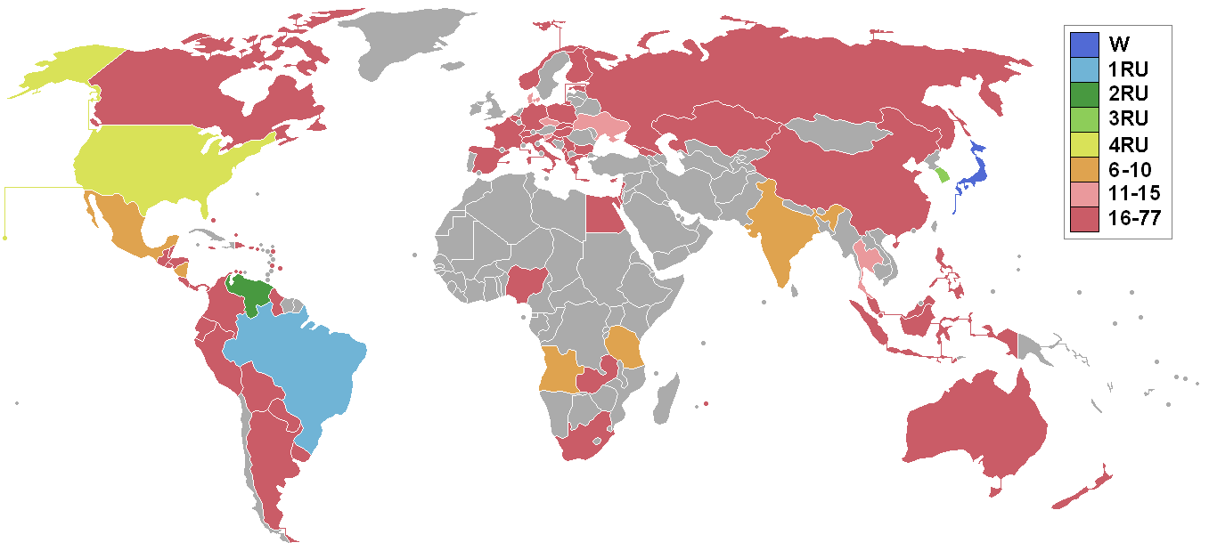 Map of competing countries for ms universe 2007